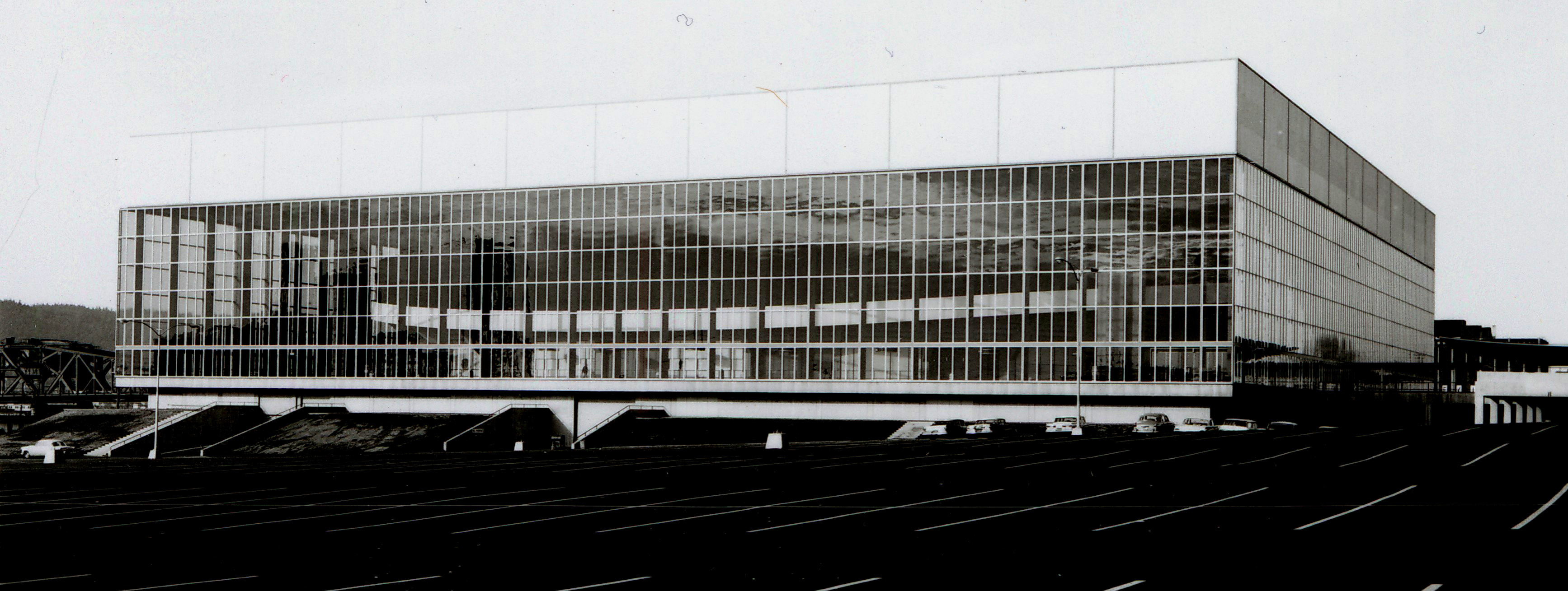 Veterans Memorial Coliseum in Portland, Oregon after is construction.